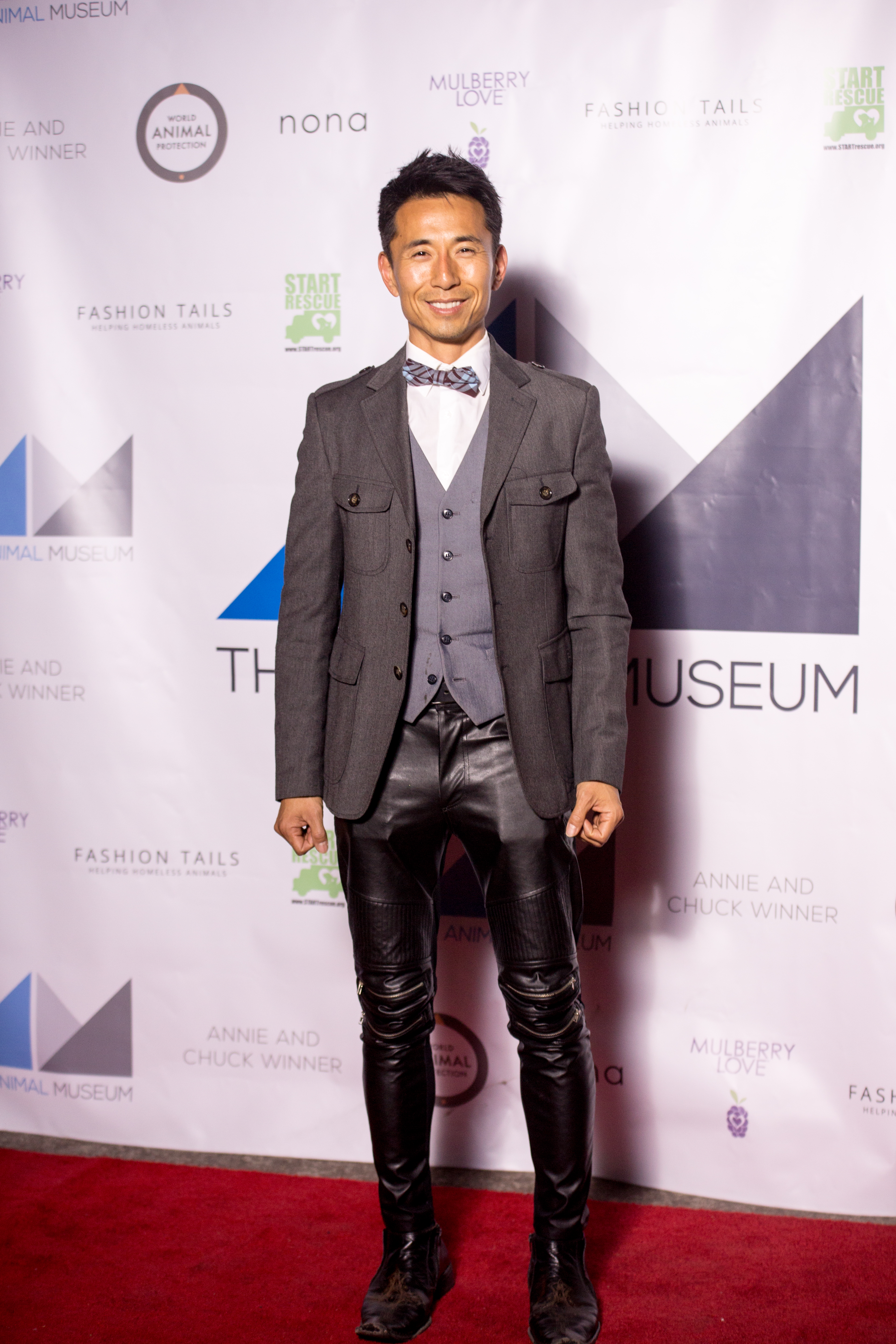 Opening at the Animal Museum